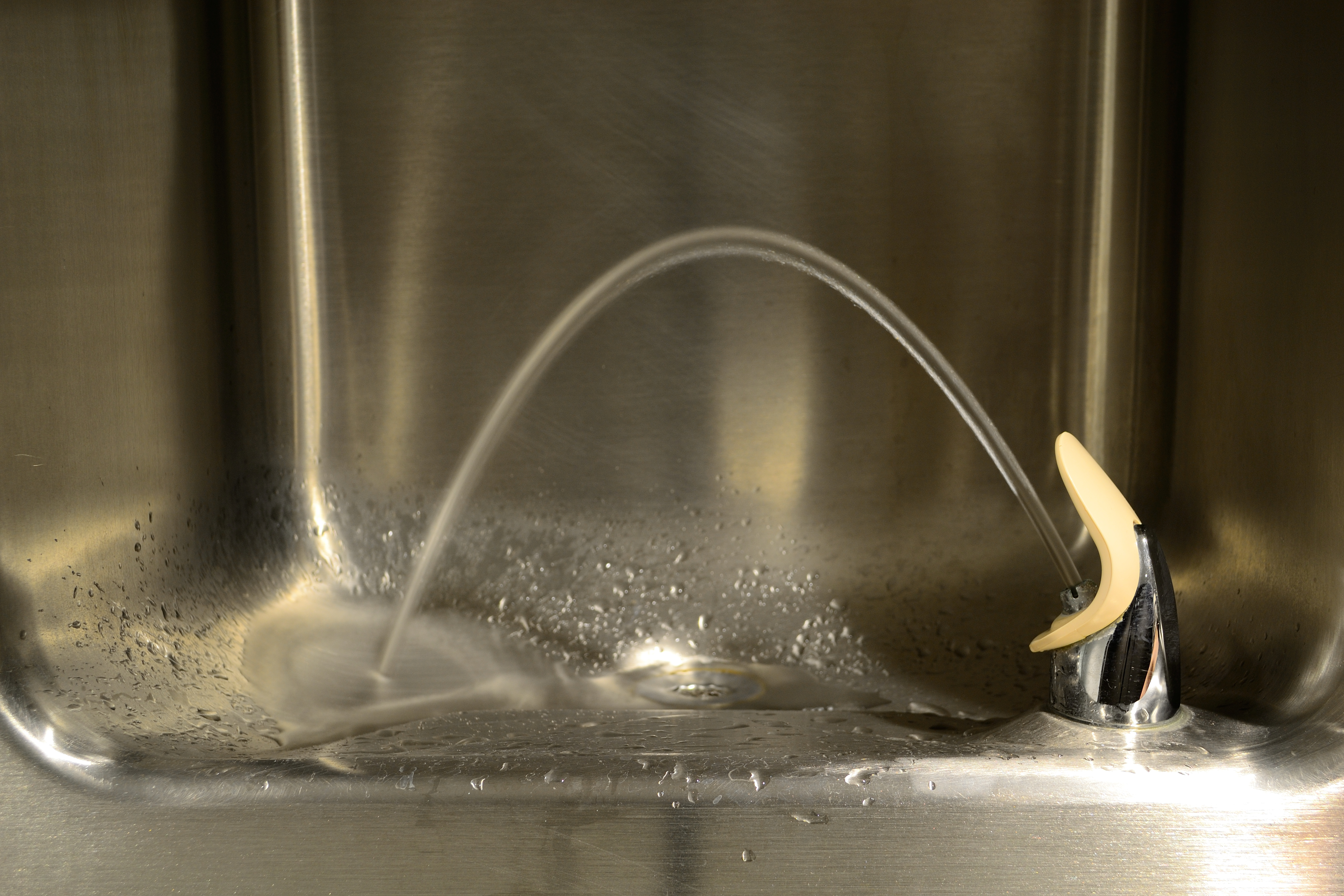 A water fountain in Toronto.